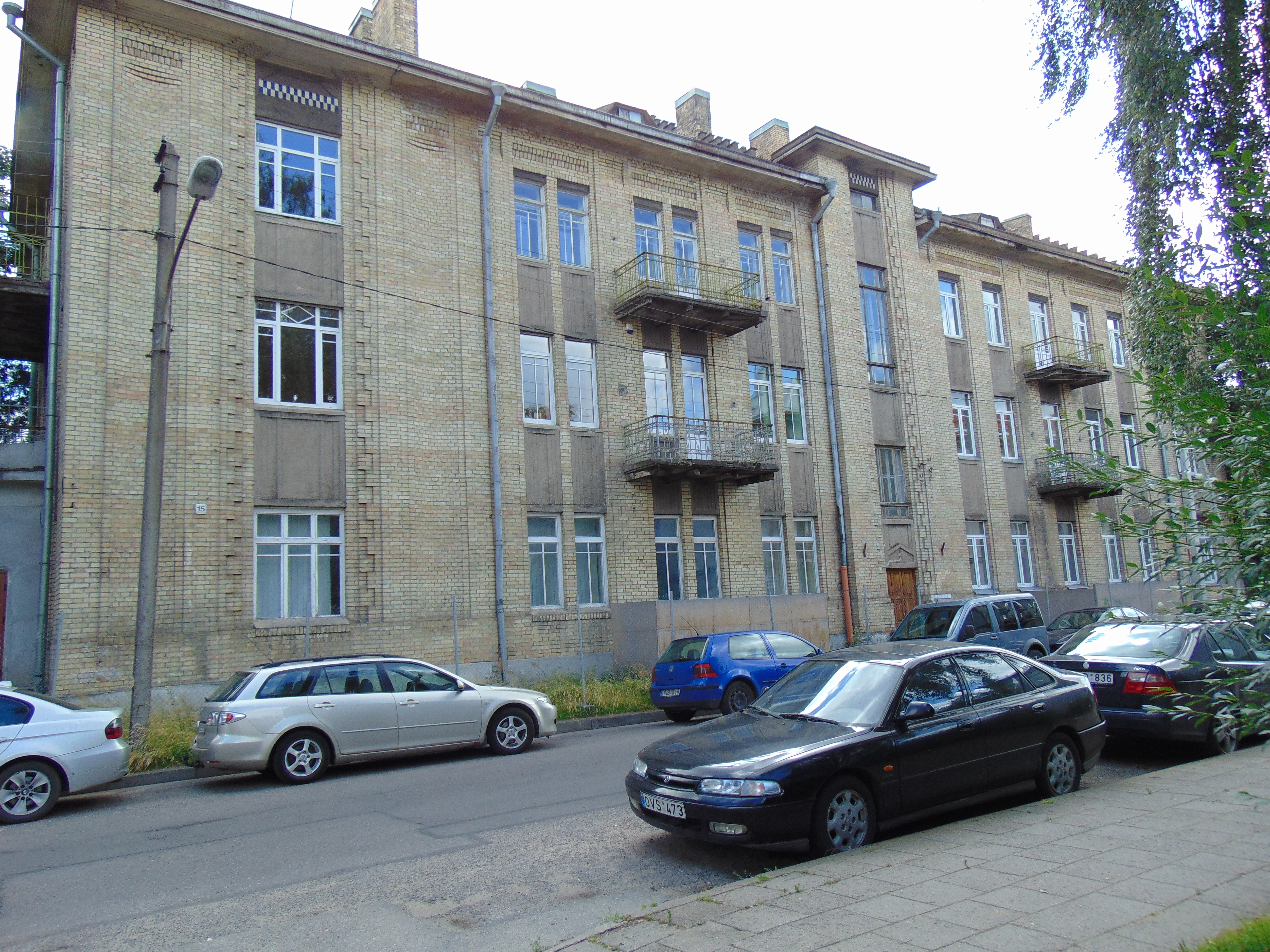 Child Development Center of Vilnius